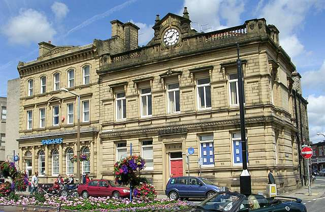 Town Hall - Thornton Square, Brighouse, West Yorkshire, England. This was built on the site of the old Malt Kiln.